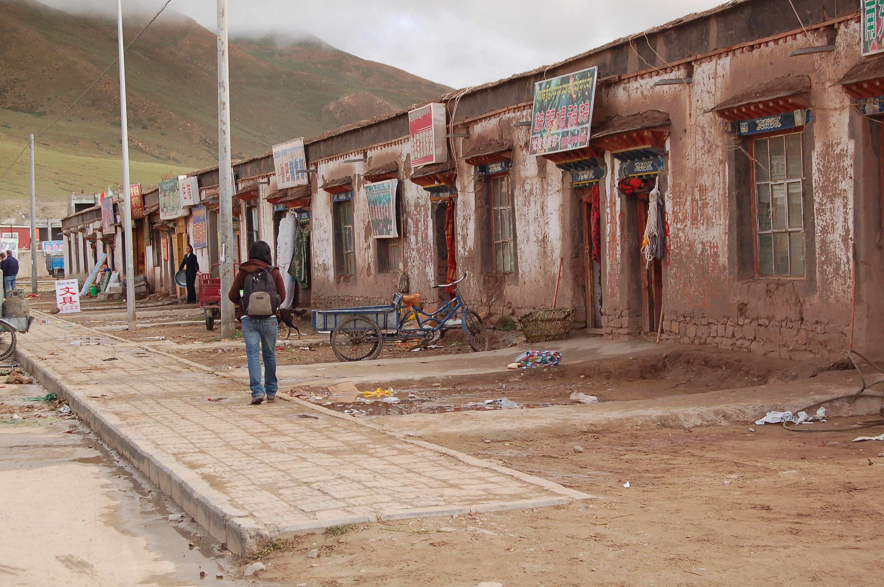 Chinese shops in Drongpa (Zhongba) Shigatse District (Tibet)